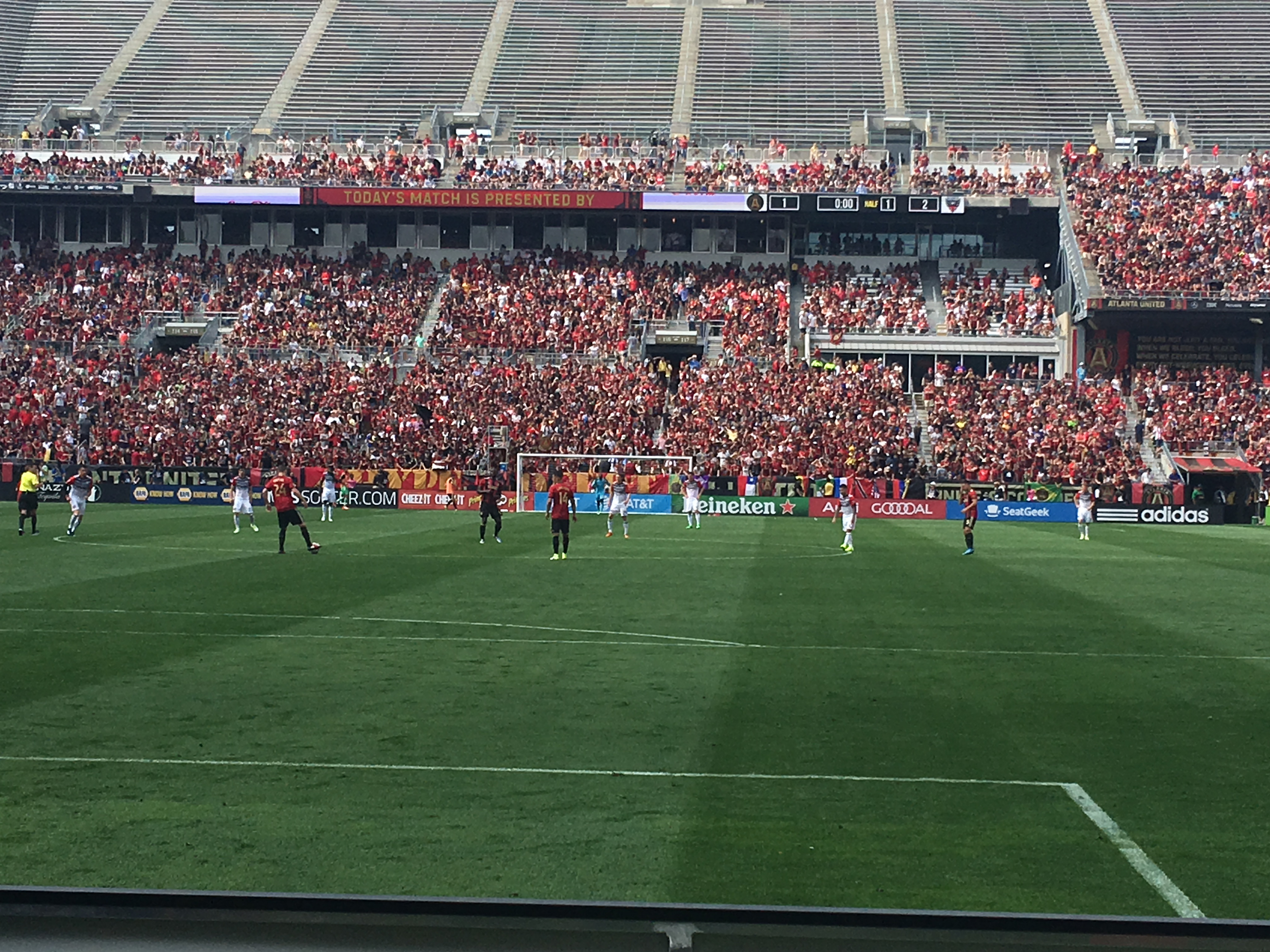 2017-04-30 - Atlanta United vs DC United